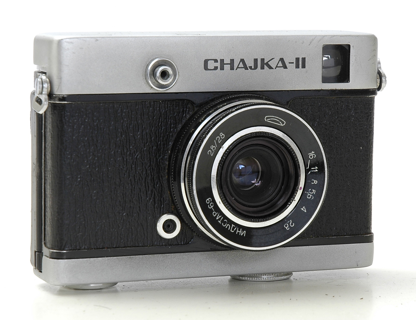 USSR camera Chajka-2